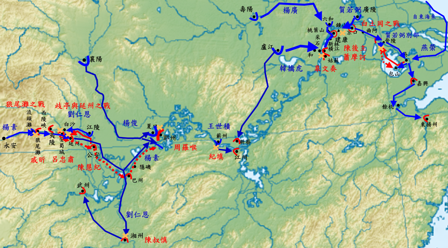 Chen Dynasty and Sui Dynasty off the map